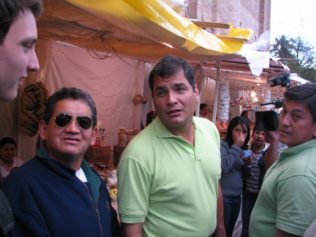 Rafael Correa talking with American student Kirk Fergus during Correa's presidential campaign. Taken by a row of candy stores during the festival of Corpus Christi.